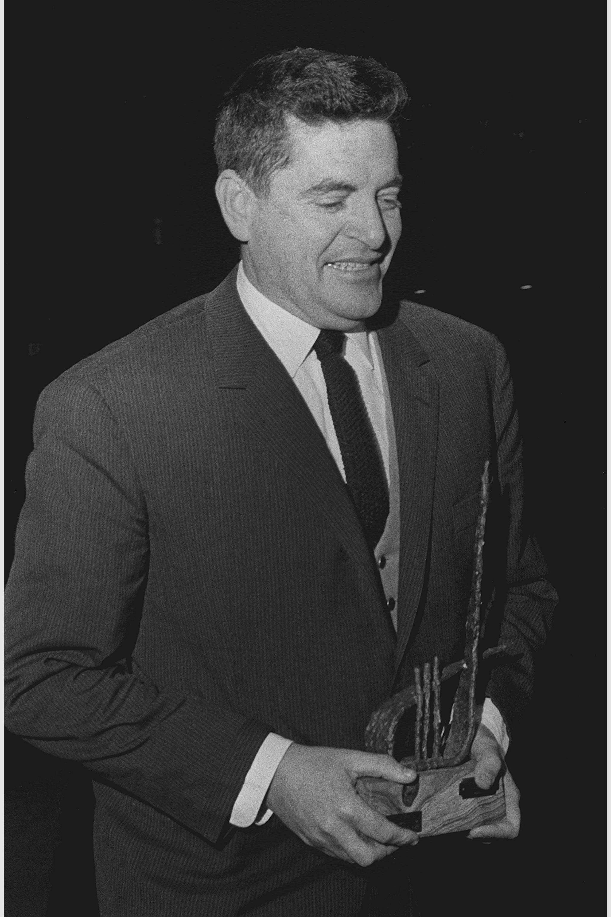 THE 1964 "KINOR DAVID" AWARD, HELD AT THE "CAMERI" THEATRE. IN THE PHOTO, BEST MOVIE DIRECTOR MENAHEM GOLAN.